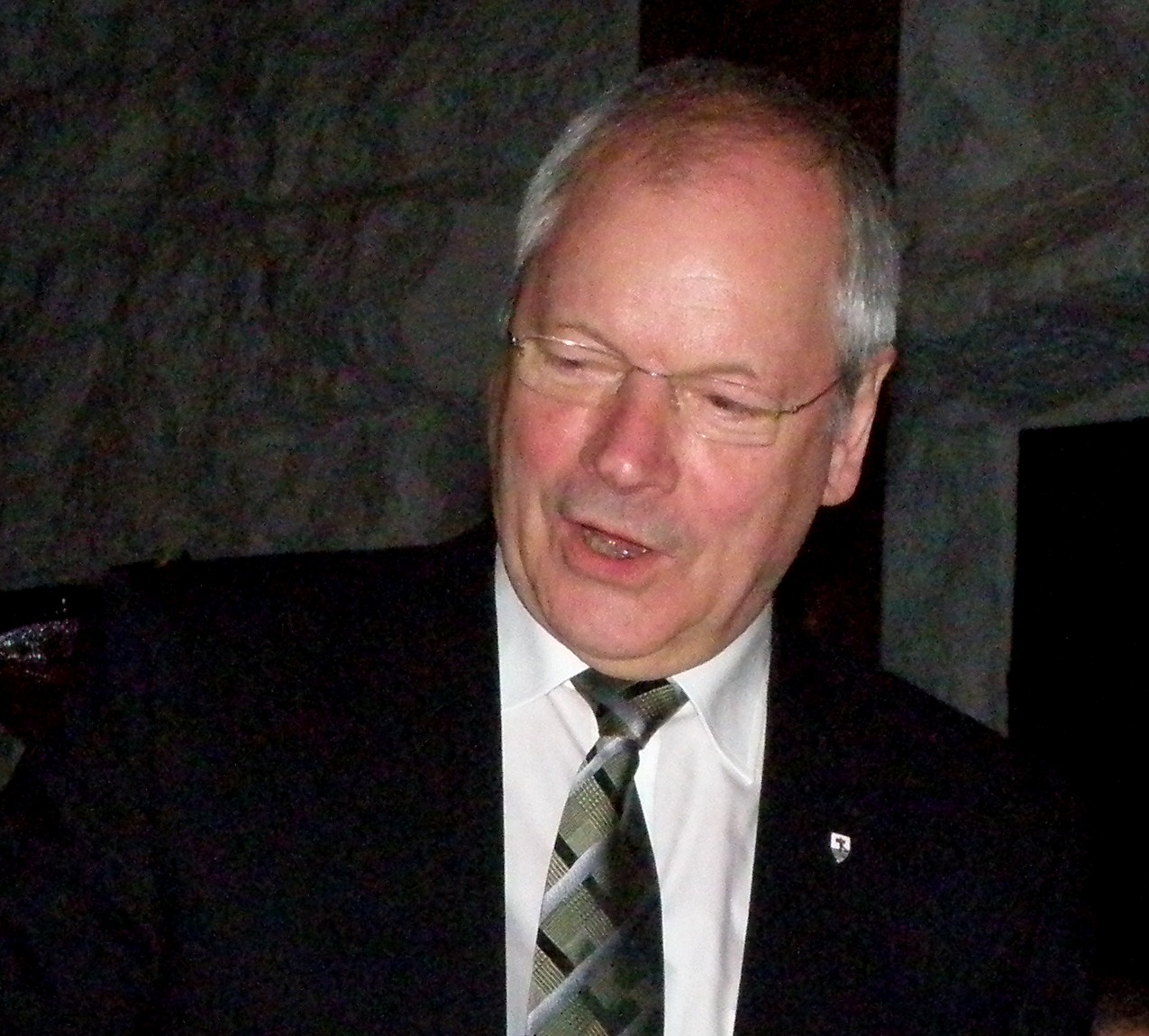 Heðin Mortensen has been Mayor of Tórshavn, Faroe Islands, since 2005. In November 2012 he broka all previous records by getting 2637 personal votes at the elections for the city council of Tórshavn. He was elected for the Social Democratic (Javnaðarflokkurin), which got 4599 votes and 7 of 13 members. 11.135 people voted for the elections in Tórshavn. Mr. Mortensen has earlier been a member of the Faroese Parliament (Løgtingið) from 1998 to 2004 for Sambandsflokkurin (Union Party). He was President of the Faroese Confederation of Sports (ÍSF) from 1980 to 2008. Heðin was born in Tvøroyri and grew up there, but most of his life as adult he has been living in Tórshavn. Føroyskt: Heðin Mortensen er borgarstjóri í Havn, valdur inn fyri Javnaðarflokkin. Hann hevur verið borgarstjóri síðan 2005. Á býráðsvalinum í november 2012 slóð hann øll met við persónligum atkvøðum, tá hann fekk 2637 persónligar atkvøður. Listi C, sum er Javnaðarflokkurin, fekk 7 býráðslimir valdar og kundi harvið stýra einsamallur, men borgarstjórin valdi tó at fara í eitt breitt samstarv við allar flokkarnar, tað vóru fýra flokkar/listar, ið fingu umboðan í Tórshavnar Býráð. Heðin hevur verið býráðslimur í Tórshavnar Býráð síðan 1973. Hann var forseti í Ítróttarsambandi Føroya (ÍSF) frá 1980 til 2008. Heðin hevur eisini verið løgtingslimur frá 1998 til 2004, tað var fyri Sambandsflokkin. Hann skifti flokk og gjørdist limur í Javnaðarflokkinum, tá tað stóð honum í boðið at gerast borgarstjóri í Havn eftir býráðsvalið í 2004. Heðin var formaður í Havnar Róðrarfelag frá 1997-2003. Hann hevur fingið fleiri heiðurstekin, gjørdist Riddari av Dannebrog 1. grad í 2003 og fekk danskan DIF heiðurskross í 2005.